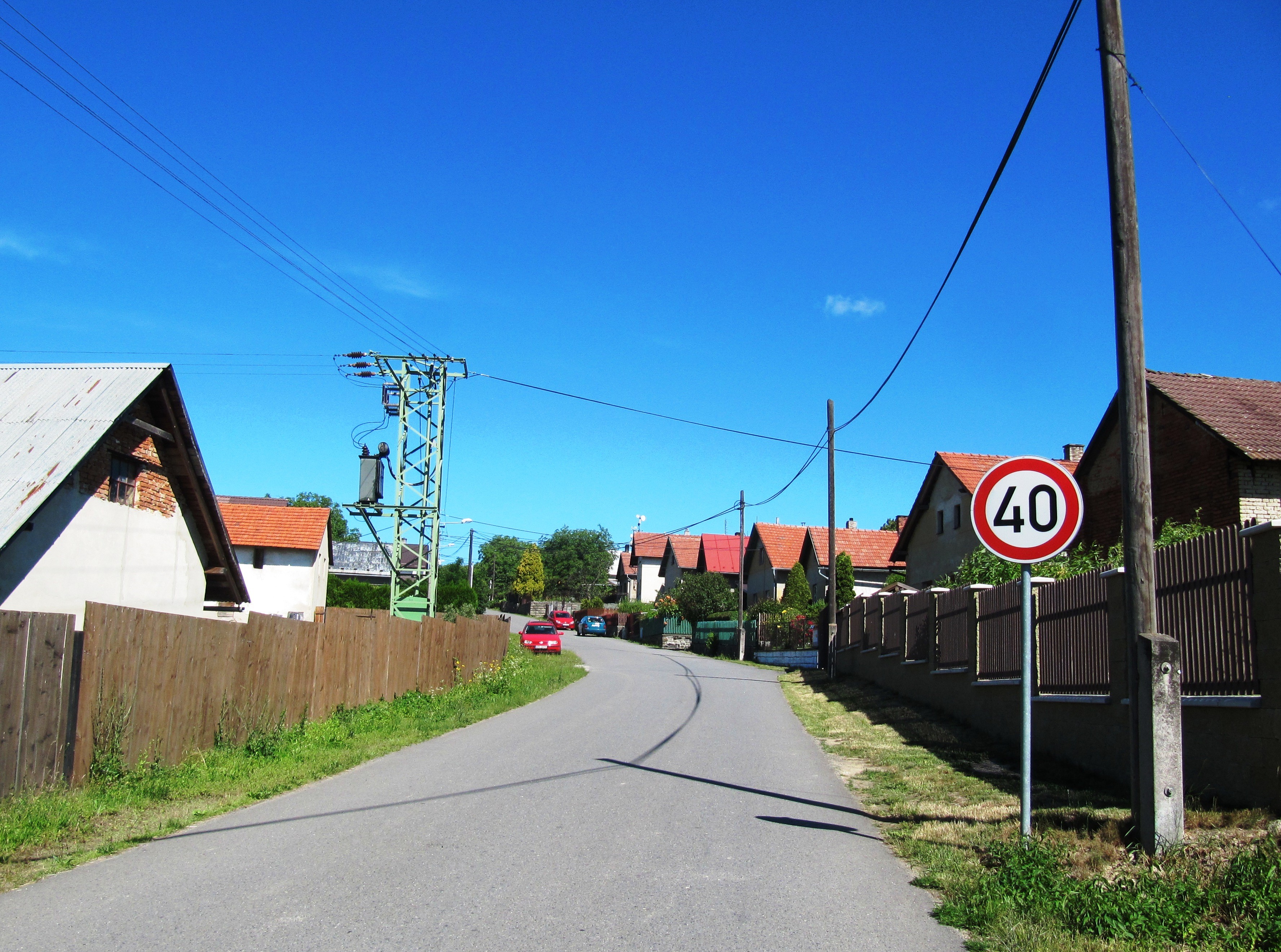 Fulnek, Nový Jičín District, Czech Republic, part Kostelec.